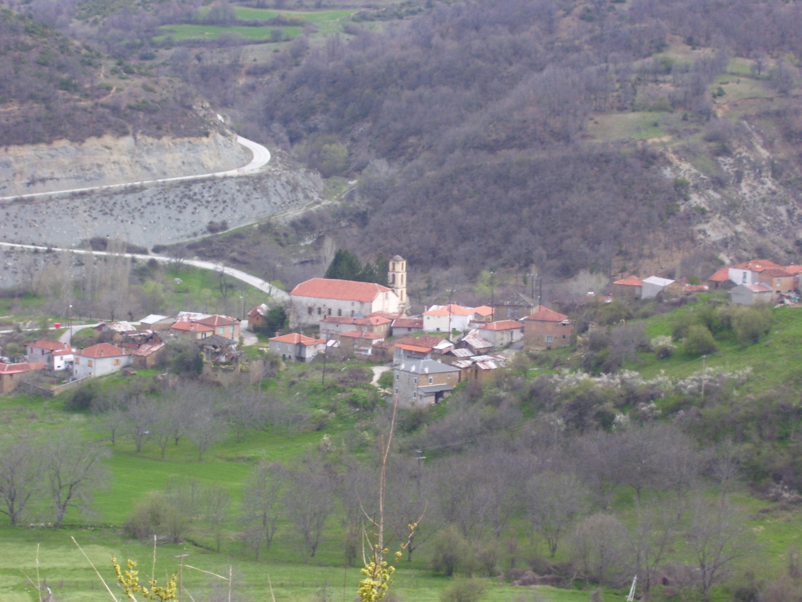 Village of Kato Nestorio, Greece.